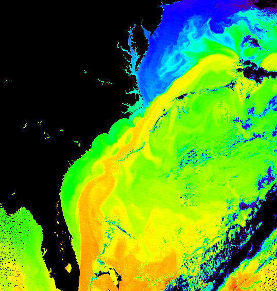 False-color image of the temperature of the Gulf Stream In this false-color Terra MODIS image, the Gulf Stream can be seen flowing to the northeast off of the United State’s eastern seaboard. This image is a false-color representation of water temperatures of the Atlantic, and since the Gulf Stream is a warm current, it shows up clearly against the surrounding waters. Temperatures are shown in a color range; progressing from low to high are purple, blue, turquoise, green yellow, orange, and red. Black represents a lack of data, and is used predominantly to represent land. The Gulf Stream shows up as a winding rope of orange and yellow against the cooler green and blue waters.